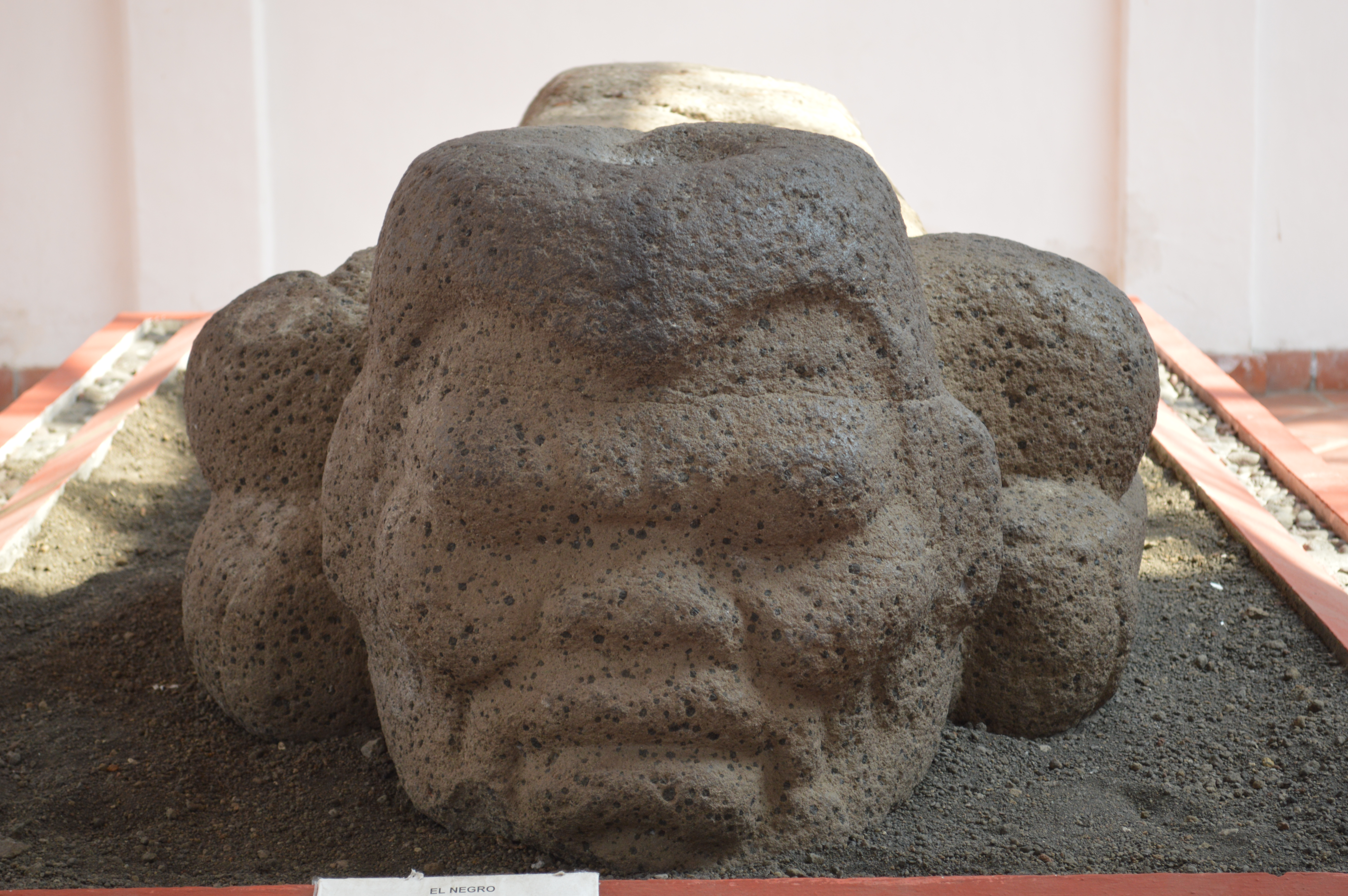 "El Negro" Olmec monumental stone sculpture from Tres Zapotes at the Museo Regional Tuxteco in Santiago Tuxtla, Veracruz, Mexico